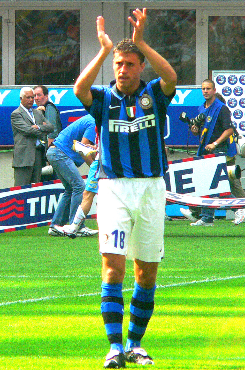 Hernán Crespo in Inter colours during 2007.